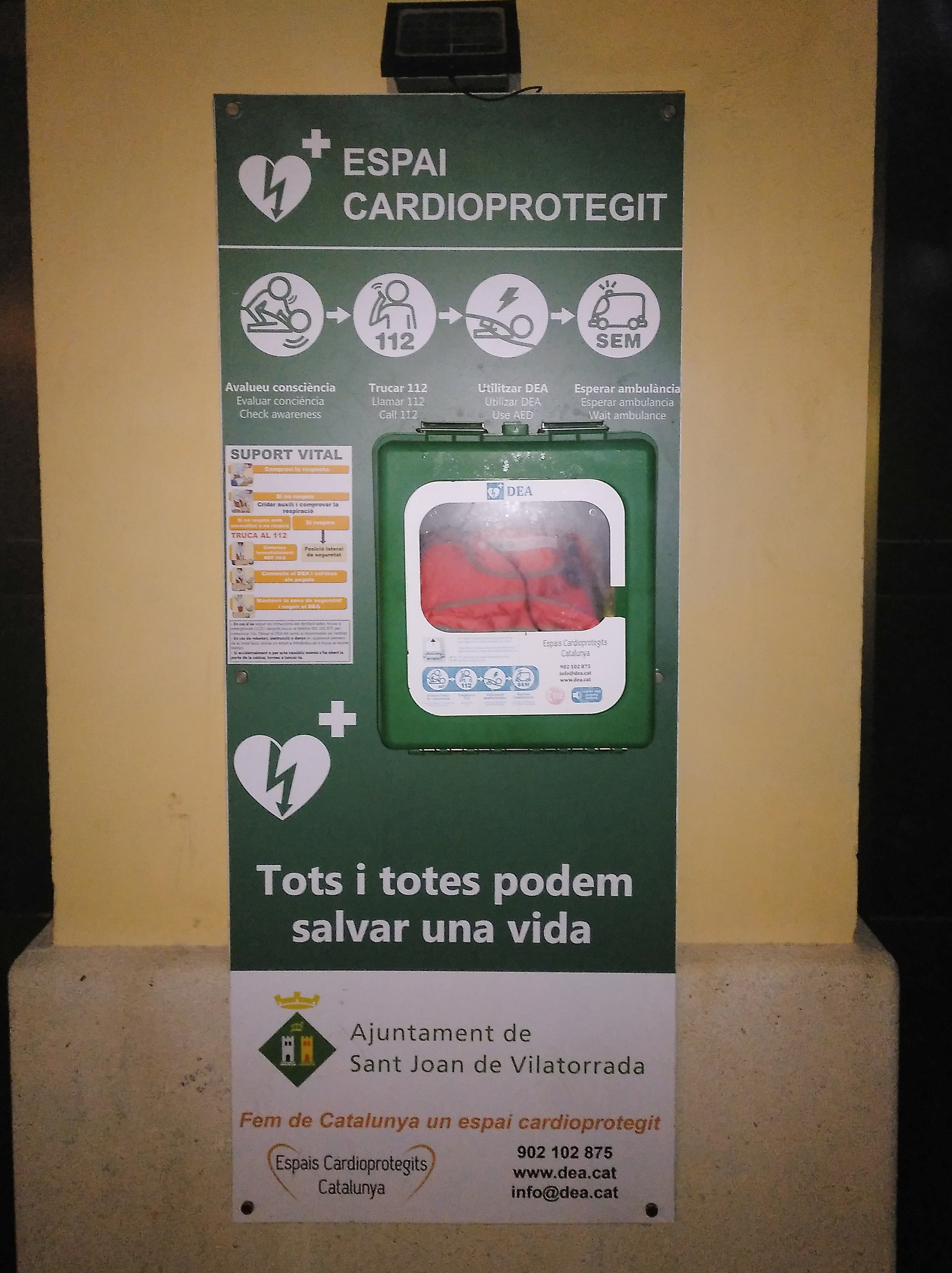 Automated external defibrillator .